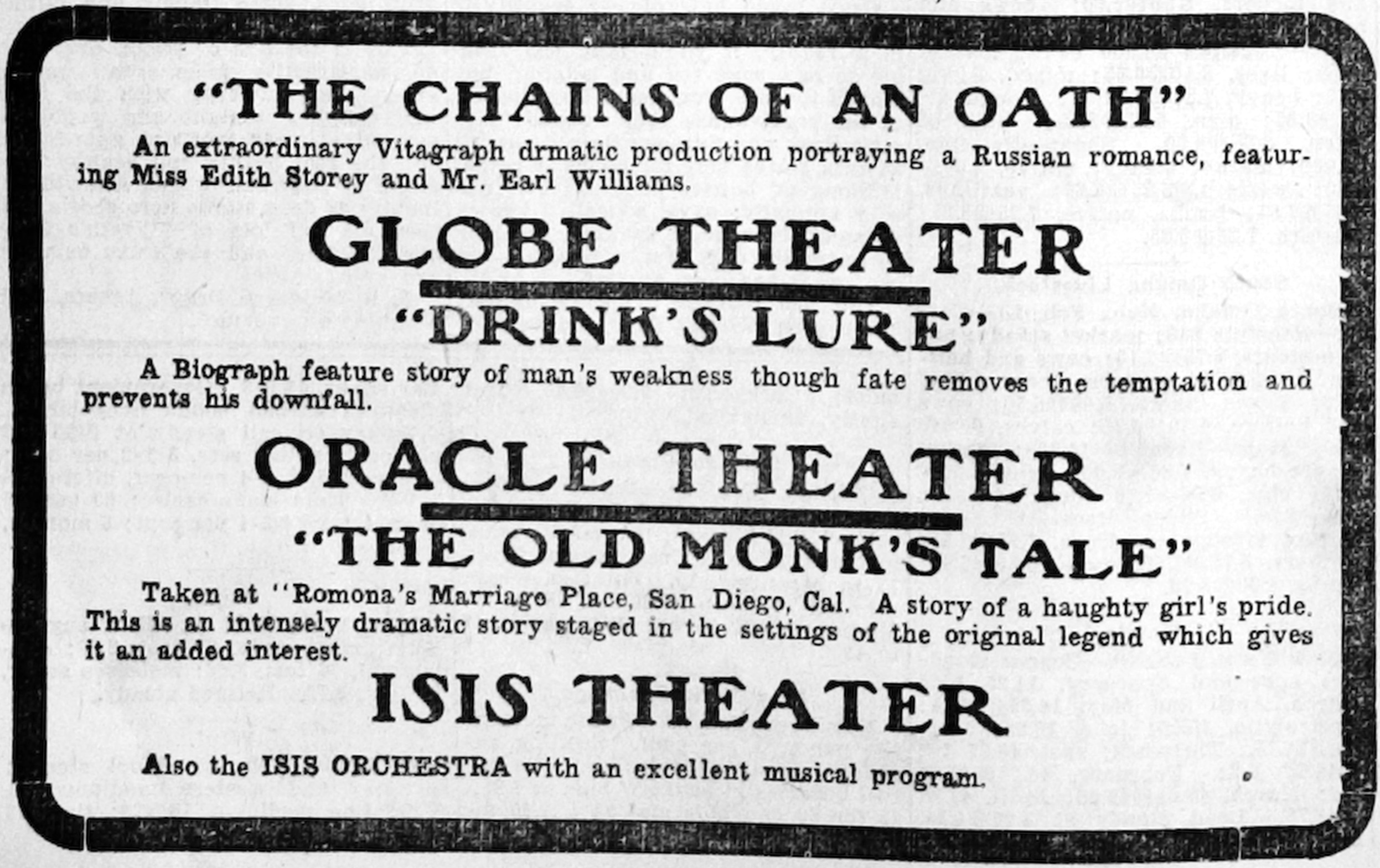 The Old Monk's Tale is a 1913 drama film directed by J. Searle Dawley, produced by The Edison Company and released by General Film Company. This is a newspaper advert for several films.